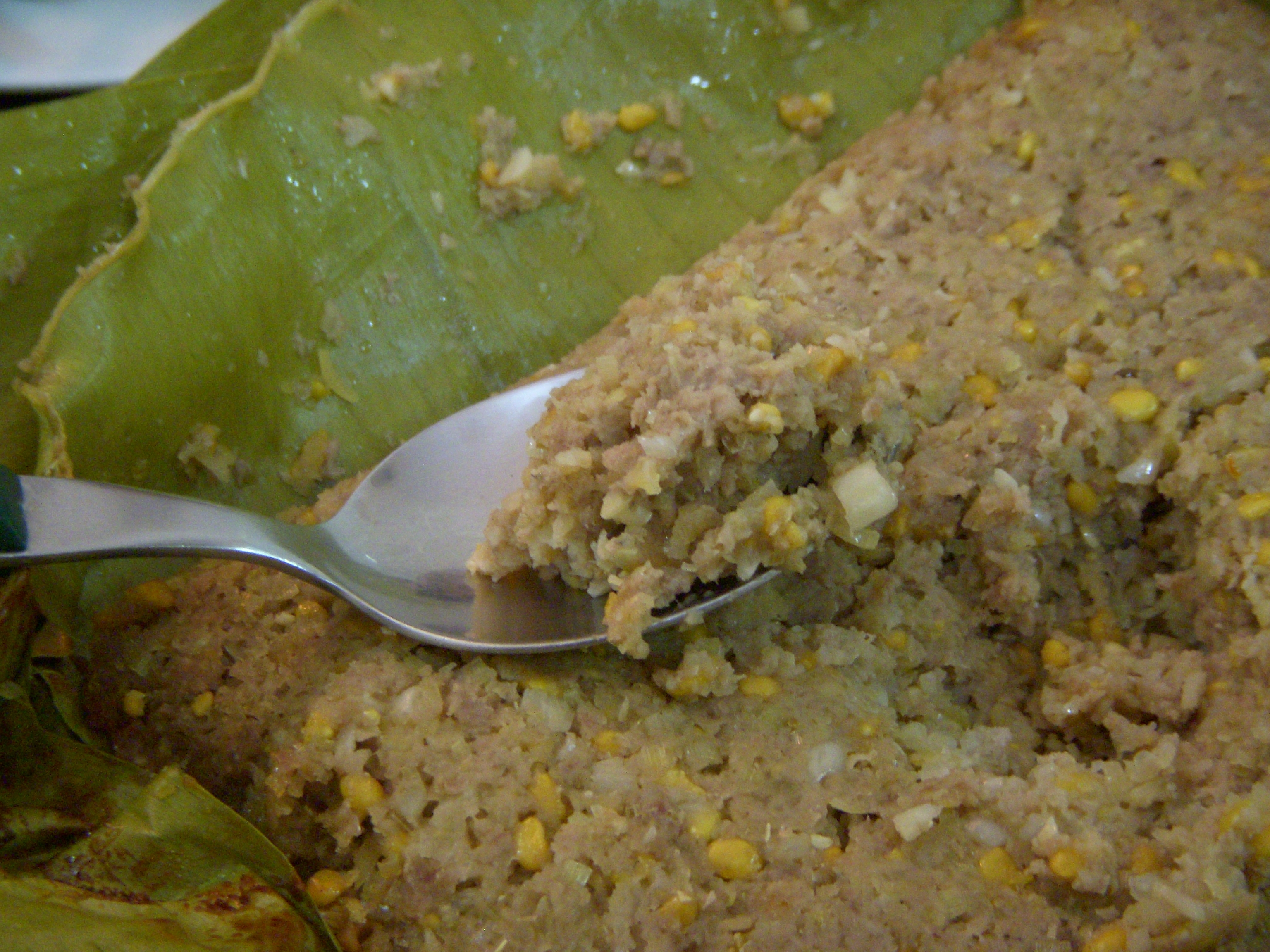 Close up of Prahok Ang (ប្រហុកអាំង), an iconic Cambodian dish. Prahok mixed with pork and seasonings, wrapped in banana leaves and roasted.